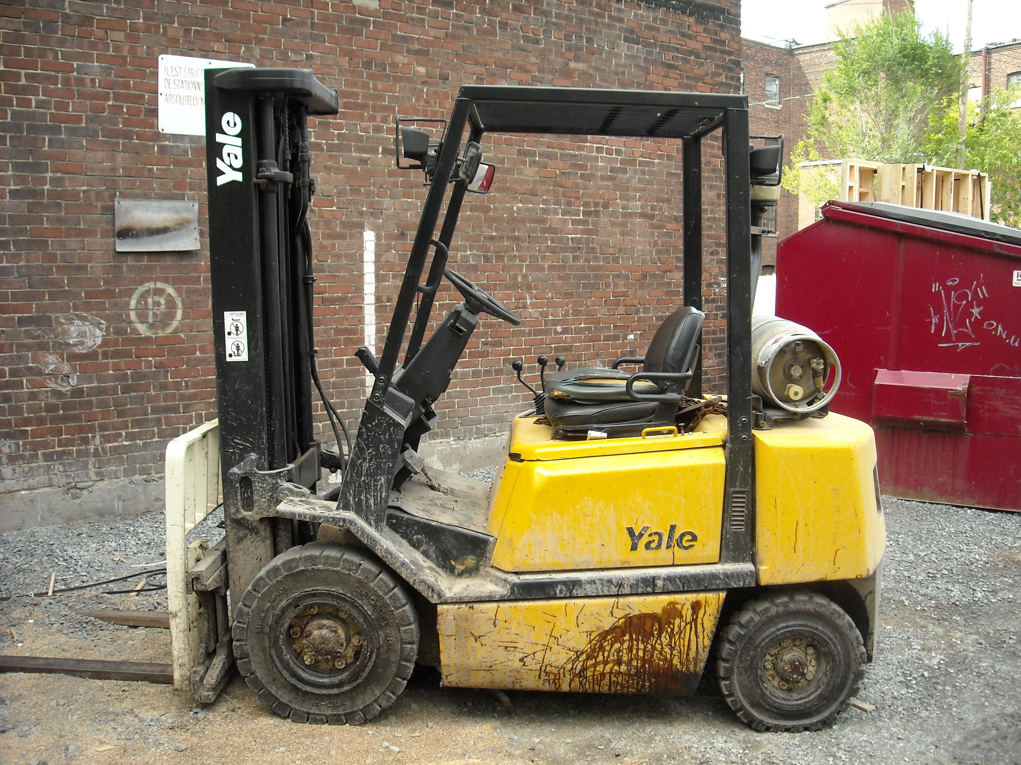 Image title: Forklift vihicle Image from Public domain images website